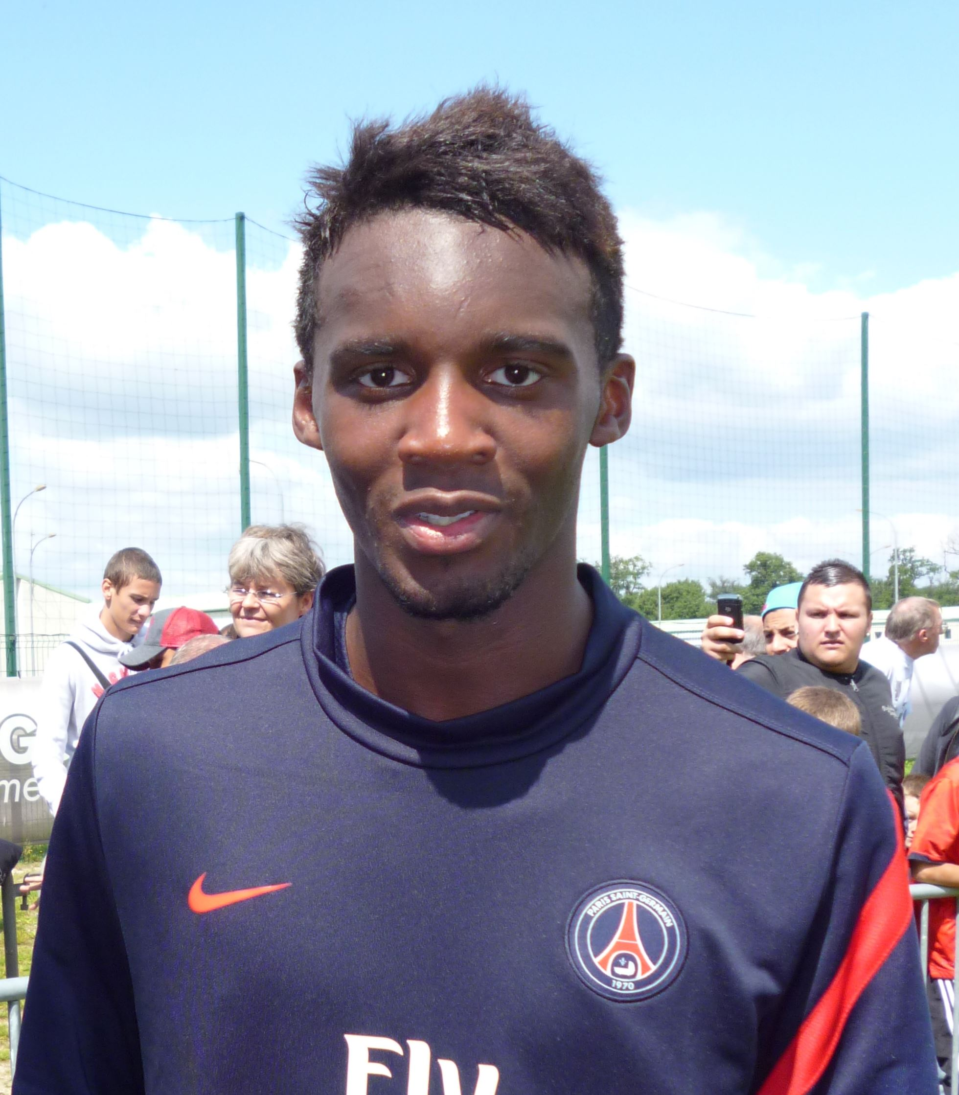 Jean Christophe Bahebeck au camp des loges